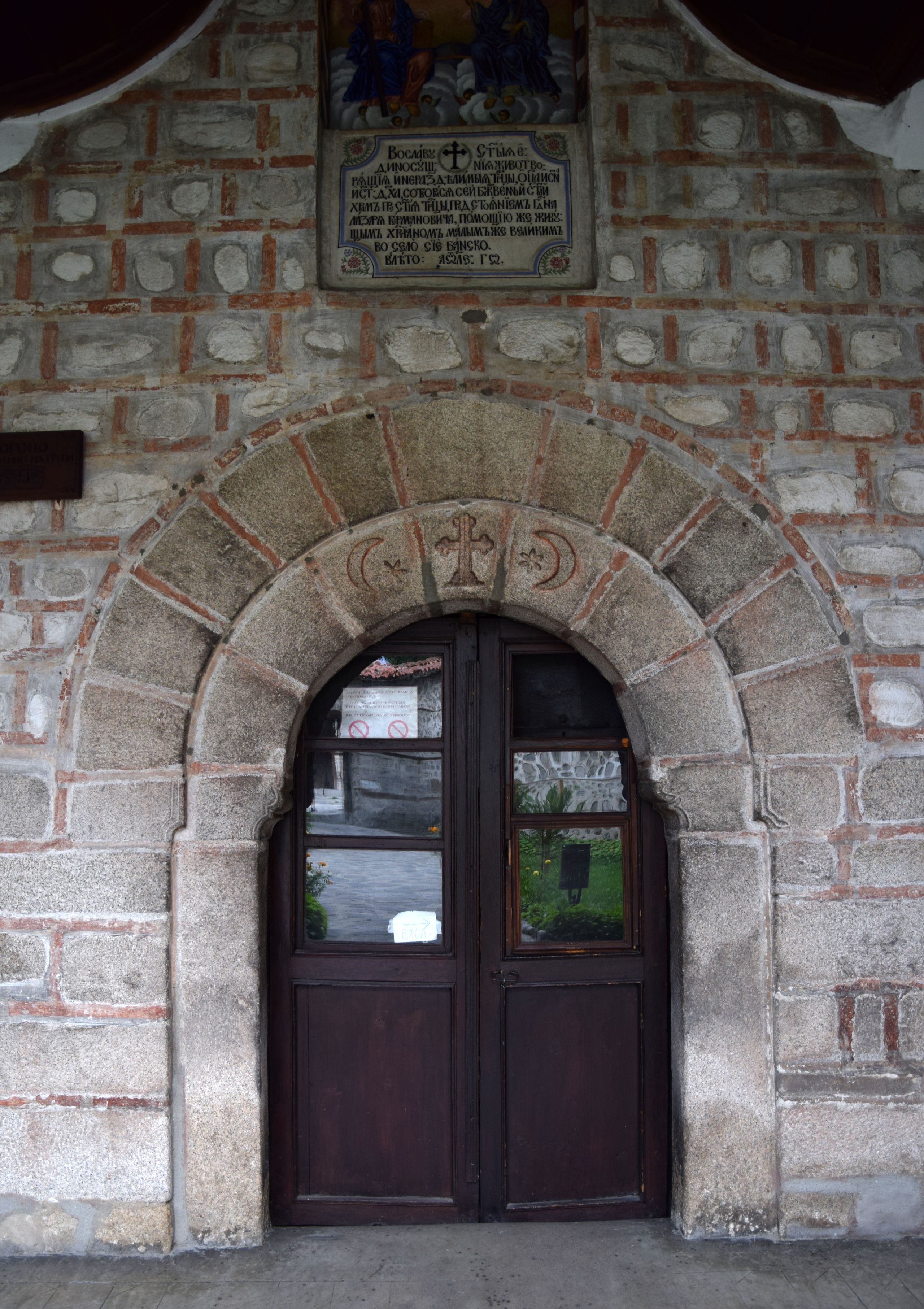 Holy Trinity Church, main door